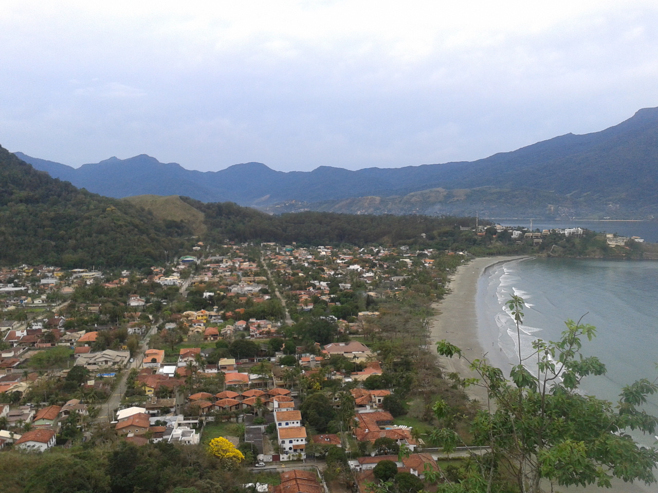 Baraqueçaba neighborhood in São Sebastião, São Paulo, Brazil, seen from a hill to the northwest of it.